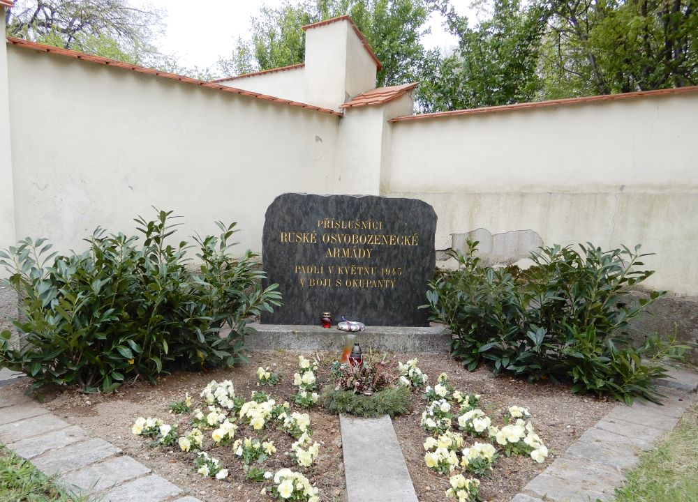 Cemetery in Prague -Ruzyně, grave of 19 soldiers of the Russian Liberation Army, died on the 6th May 1945 during the liberation of Ruzyně airport